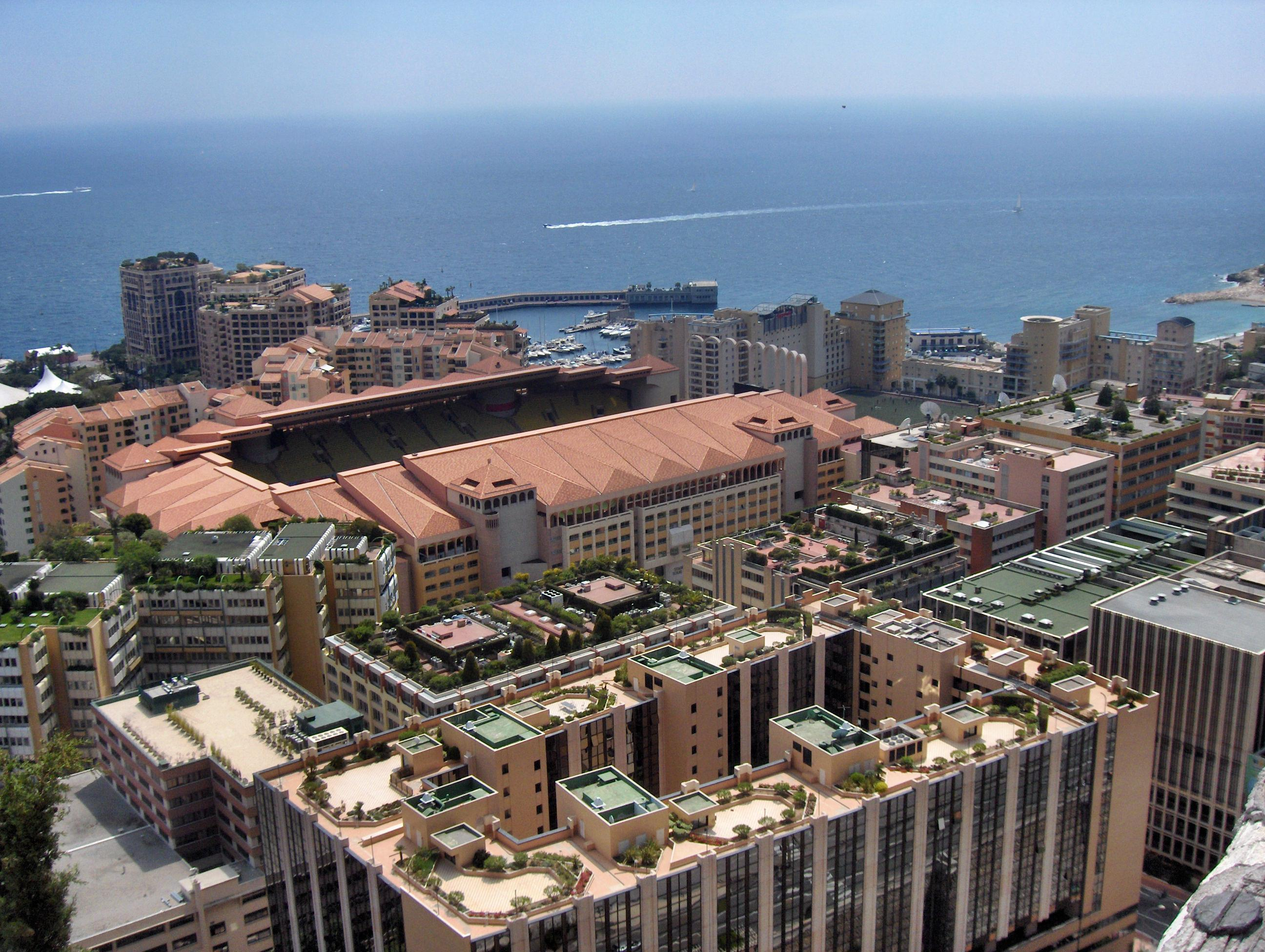 Louis 2nd stadium and Ward of Fontvielle seen from the exotic garden; Monaco